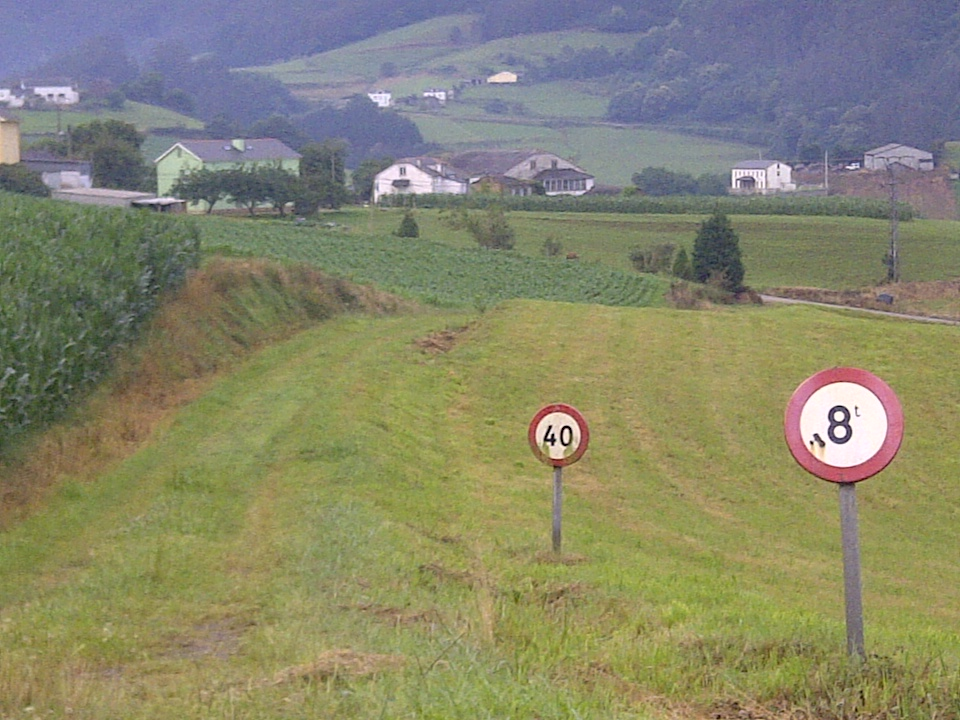 Arancedo camino